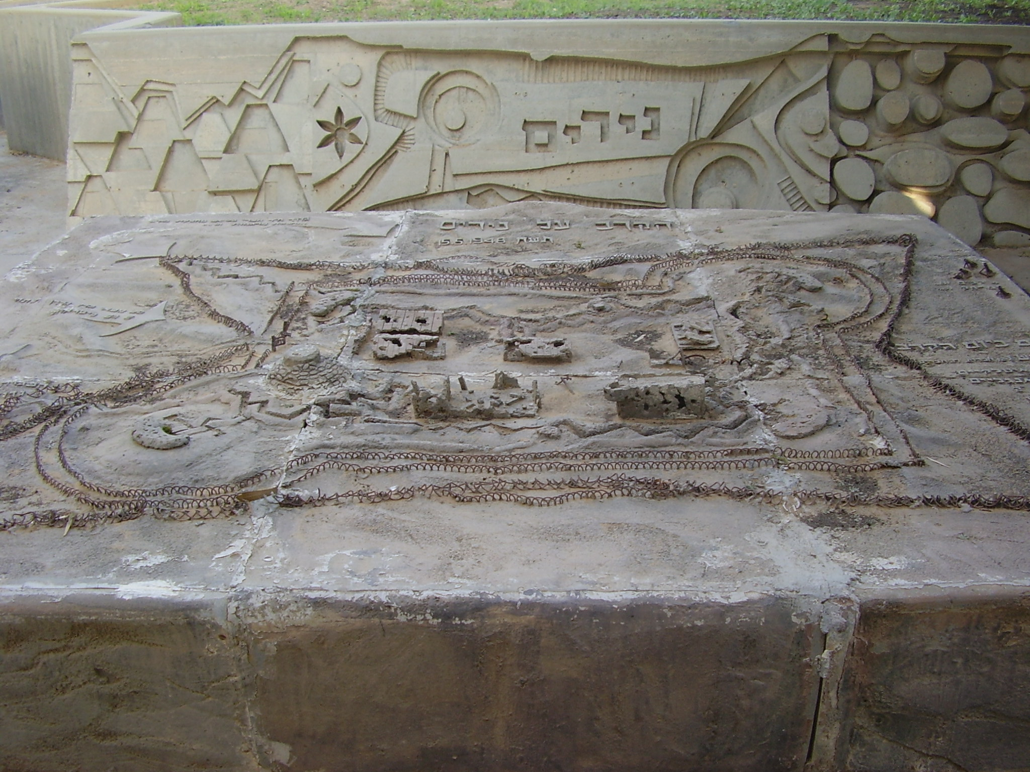 model of kibbutz nirim (dangur) in the independence war- 1948 דגם של קיבוץ נירים במלחמת העצמאות, באנדרטת נירים